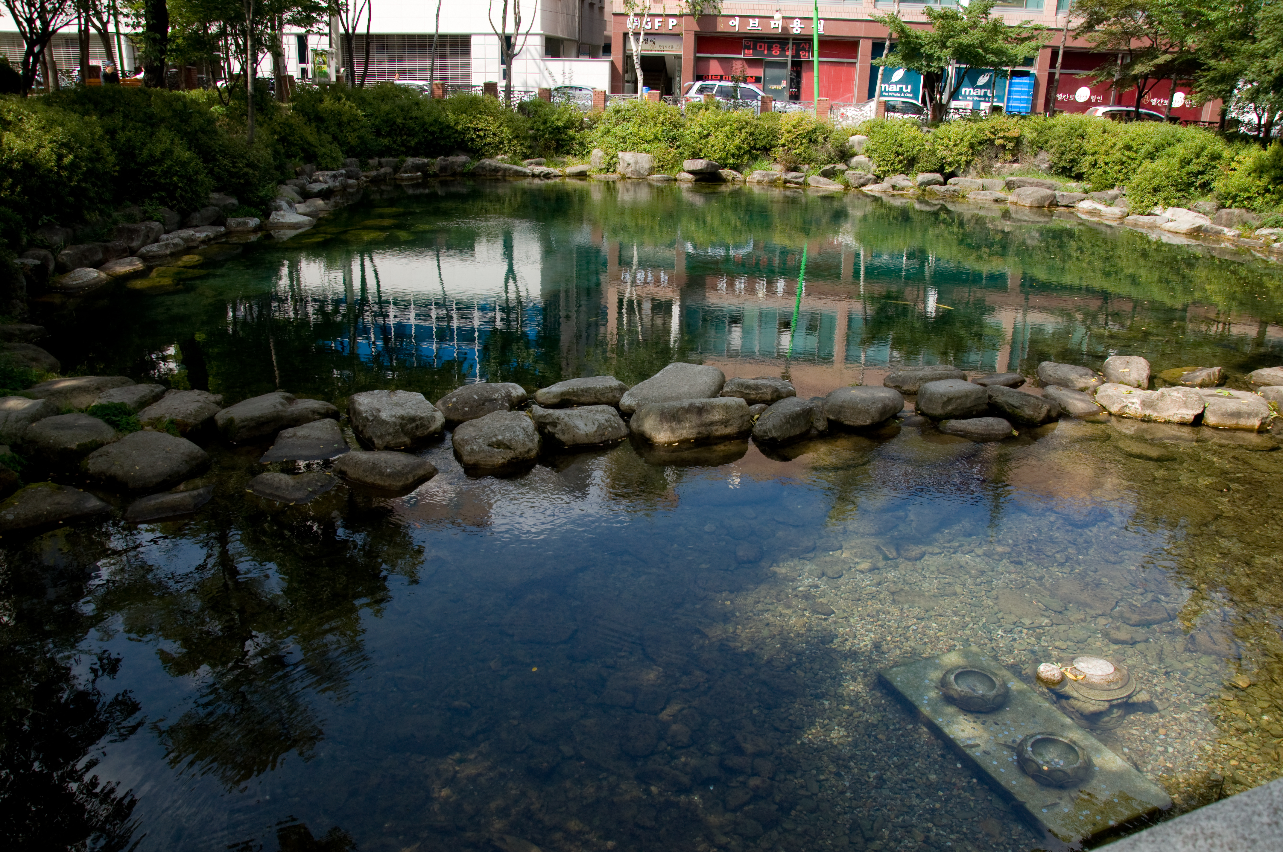 Hwangji Pond in Taebaek. The start of the Nakdong River